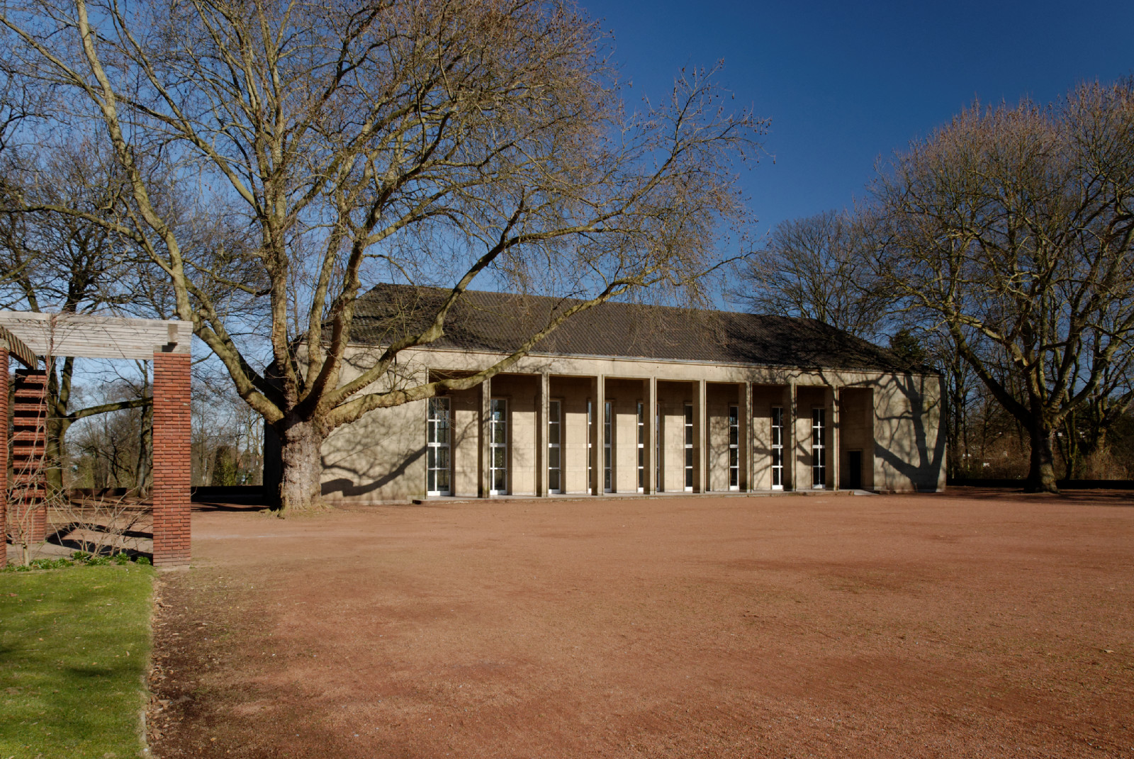 Ausstellungshalle im Nordpark, Kaiserswerther Straße 390 in Düsseldorf-Stockum, Germany This is a photograph of an architectural monument.